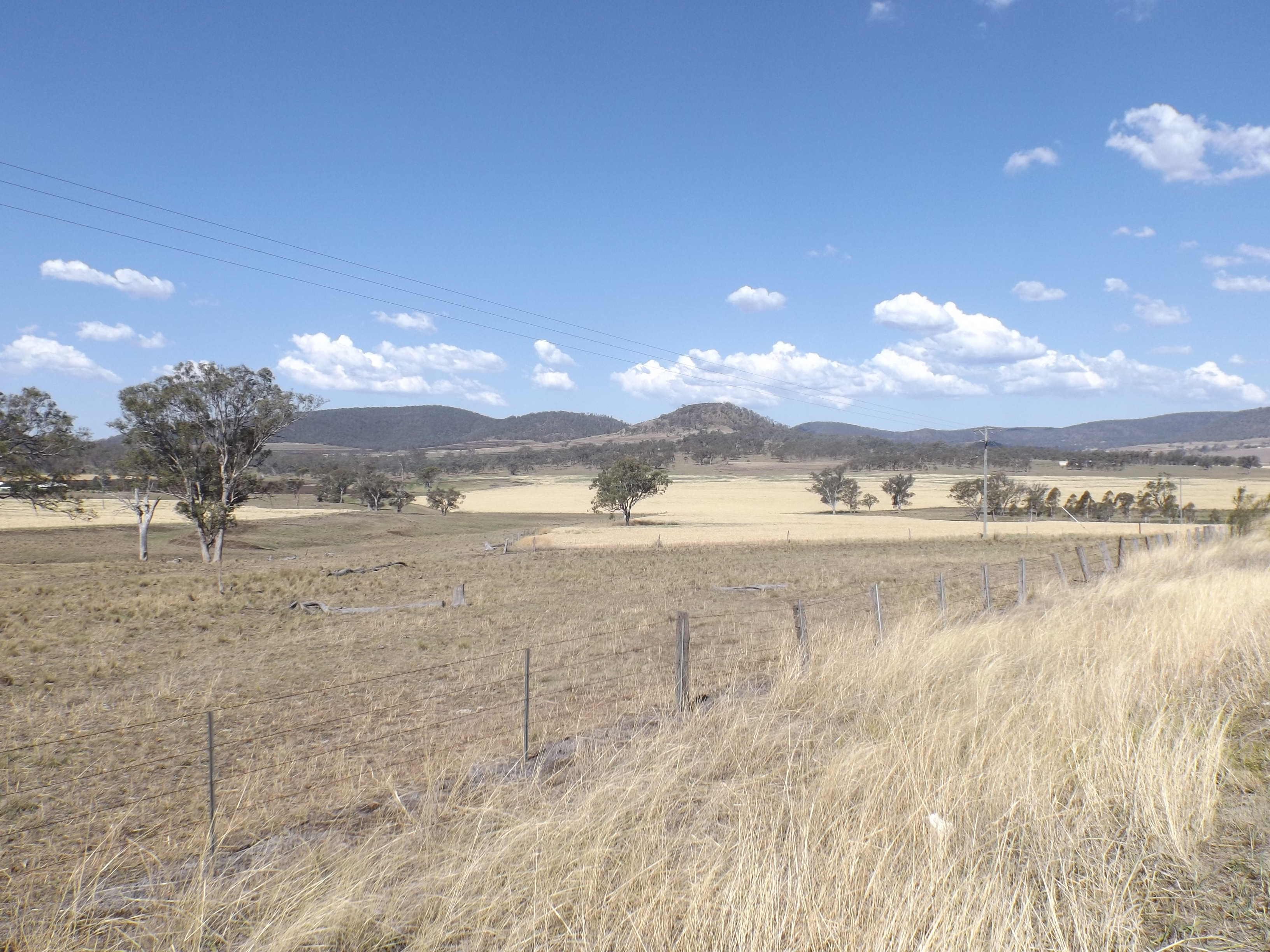 Photo of fields along Greenmount Hirstvale Road at Hirstglen Queensland, Australia.